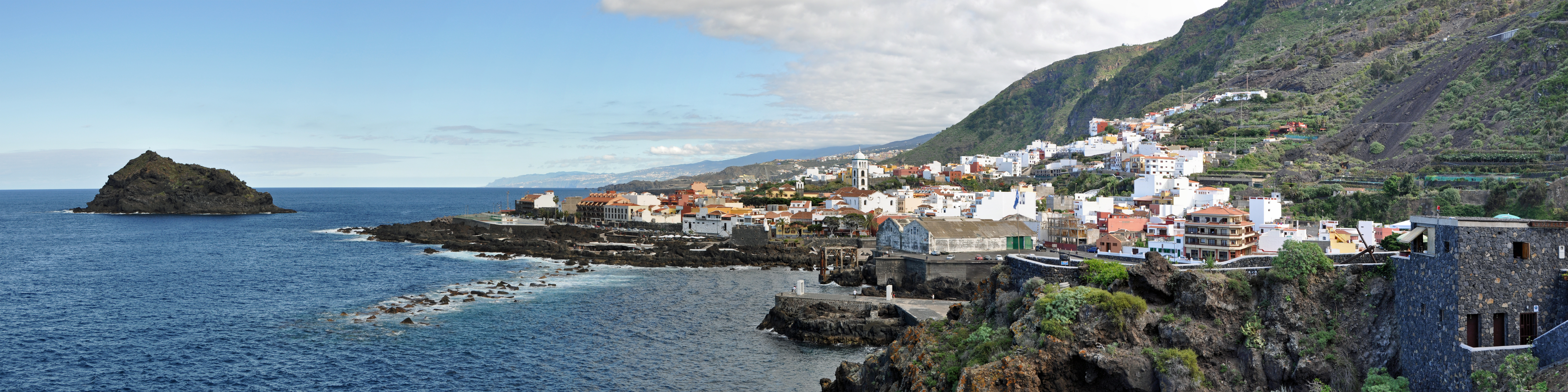 The historic town of Garachico, Tenerife